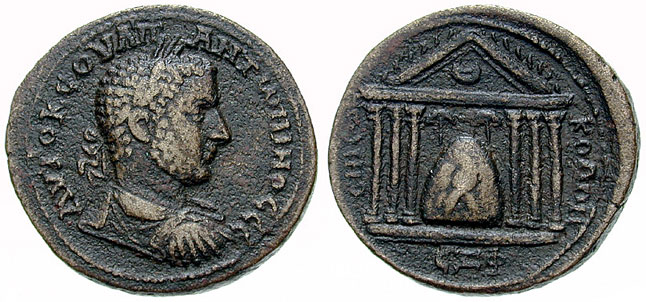 Uranius Antoninus. 253-254 AD. Æ 32mm (21.42 gm). Struck in year 565 of the Seleukid era or 253/254 AD in Emesa. AYTOK. COYΛΠ. ANTΩNINOC CE., laureate, draped and cuirassed bust right; viewed from behind EMICΩN KOΛΩN , hexastyle temple containing the conical stone of El Gabal (ornamented with a facing eagle), shaded by two umbrellas; pediment ornamented with crescent; date EΞΦ in the exergue. BMC Galatia etc. pg. 241, 24; Delbrück, "Uranius of Emesa," NumChron (1948), pg. 12, 2d; Baldus 38-42 (pl. IV, dies I/5). Uranius Antoninus is unknown from the ancient literary sources, although Zosimus perhaps confuses this usurper with two usurpers he names as Antoninus and Uranius during the reign of Severus Alexander. He established his government at Emesa in Syria, probably in response to repeated Persian attacks rather than as a challenge to Rome. In any event, it appears he was finally subdued when Valerian I marched to recover the East.